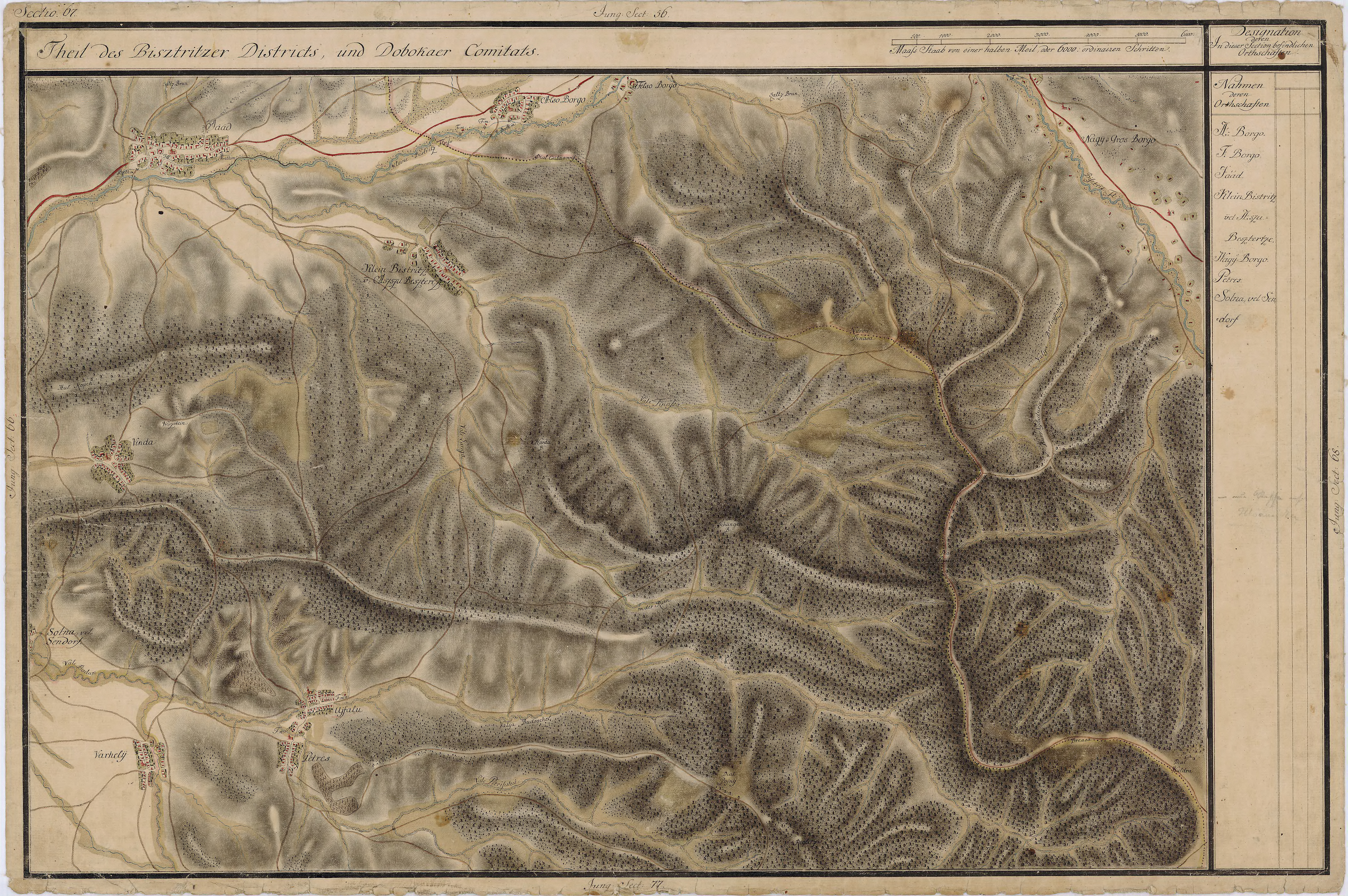 Grand Duchy of Transylvania, 1769-1773. Josephinische Landaufnahme pg.067